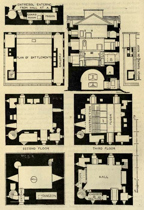 Floor plans and a section of Comlongon Castle, near Annan, Scotland.